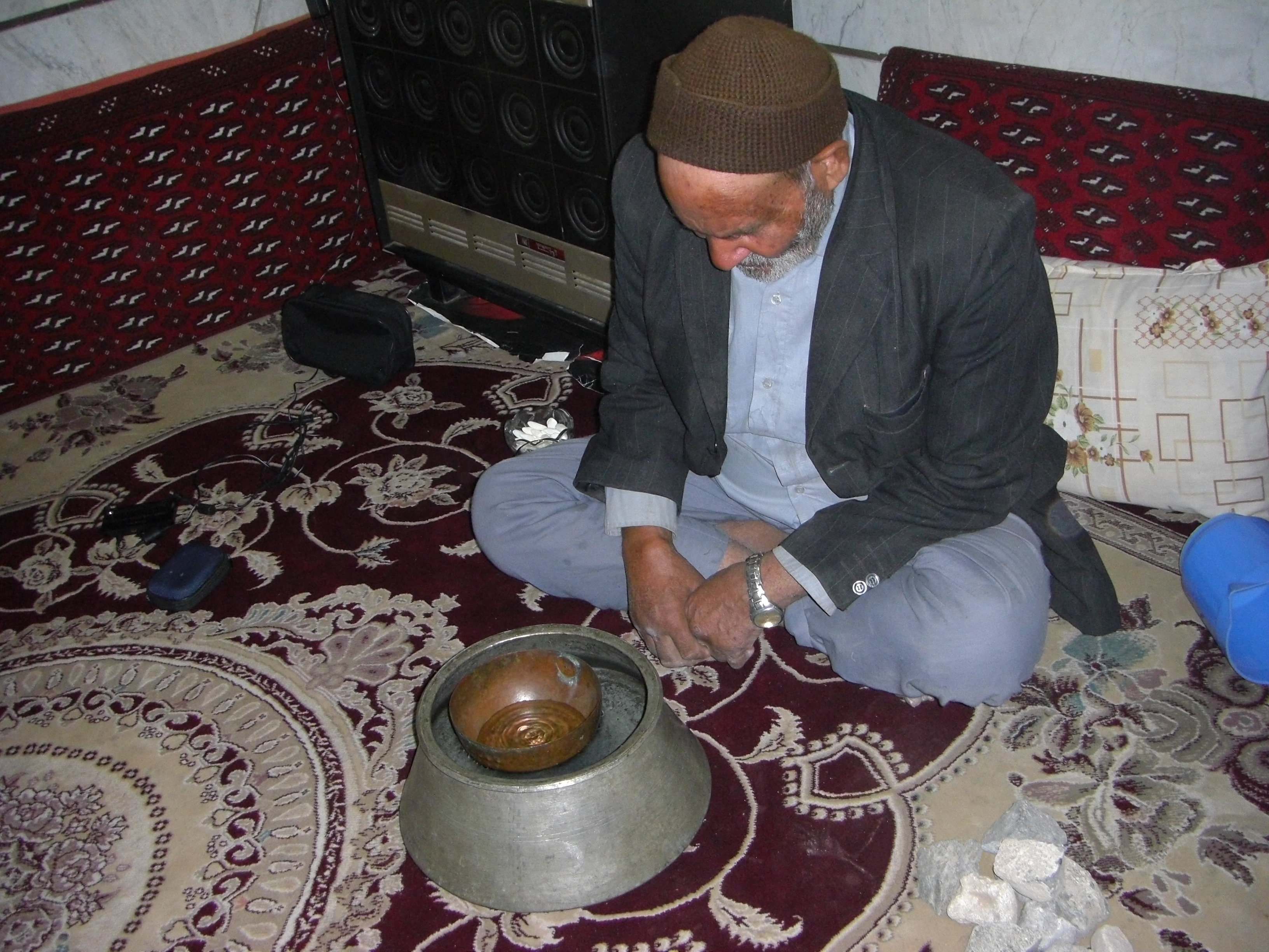 میرآب در حال مدیریت زمان با فنجان.manager of water clock in qanat kariz.kareez